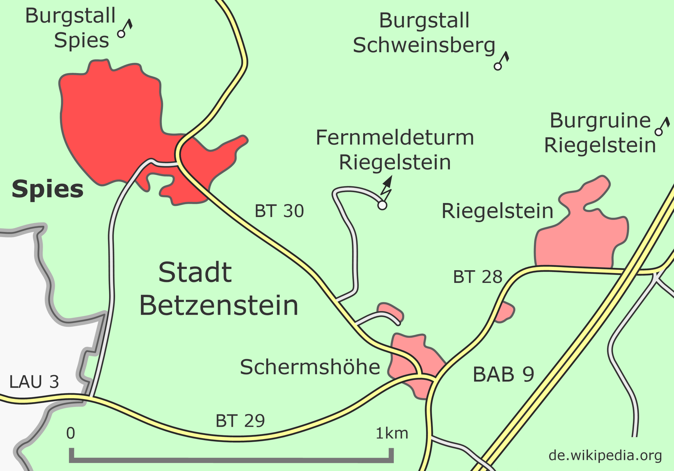 Surroundig map of the village Spies, part of the town of Betzenstein